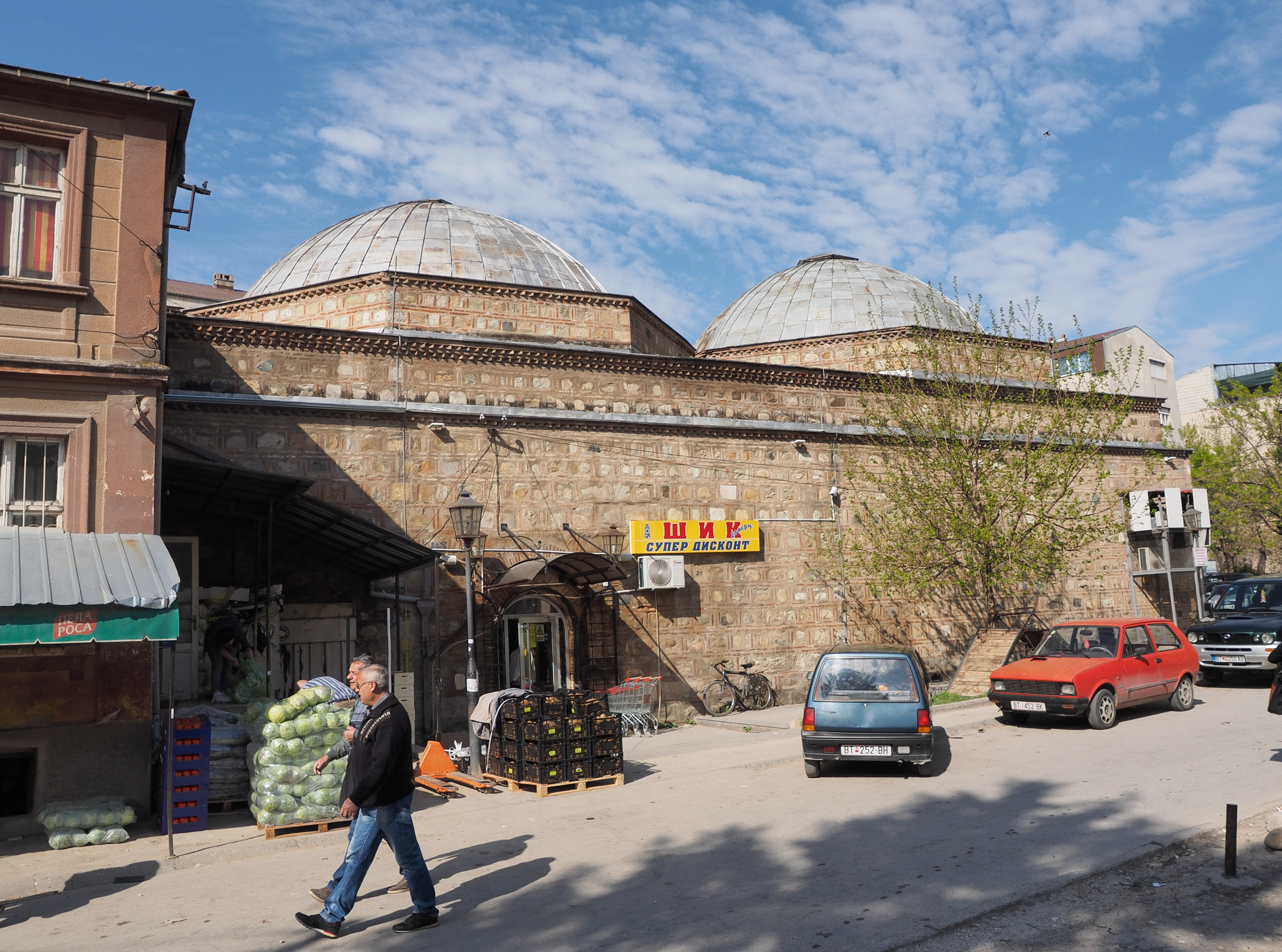 Hamam Deboj (Bitola), Macedonia. Српски (ћирилица): Хамам Дебој, Битољ. (турско купатило) This photograph was taken with a Olympus E-M1.